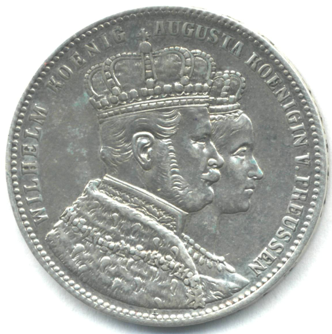 Taler of Prussia 1861 obverse. Coronation of new king Wilhelm. Coin from my collection. Scan was made by me personally